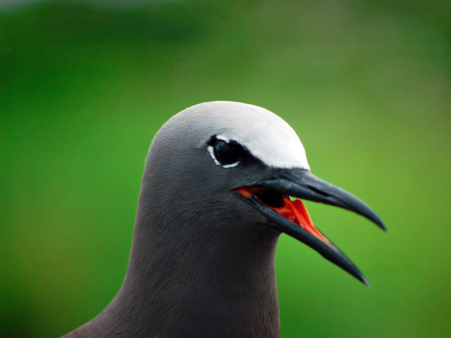 Close-up of the head of Anous stolidus (Brown Noddy) in Tubbataha Reef National Park in the Philippines. Photographed in 2012 by Gregg Yan.